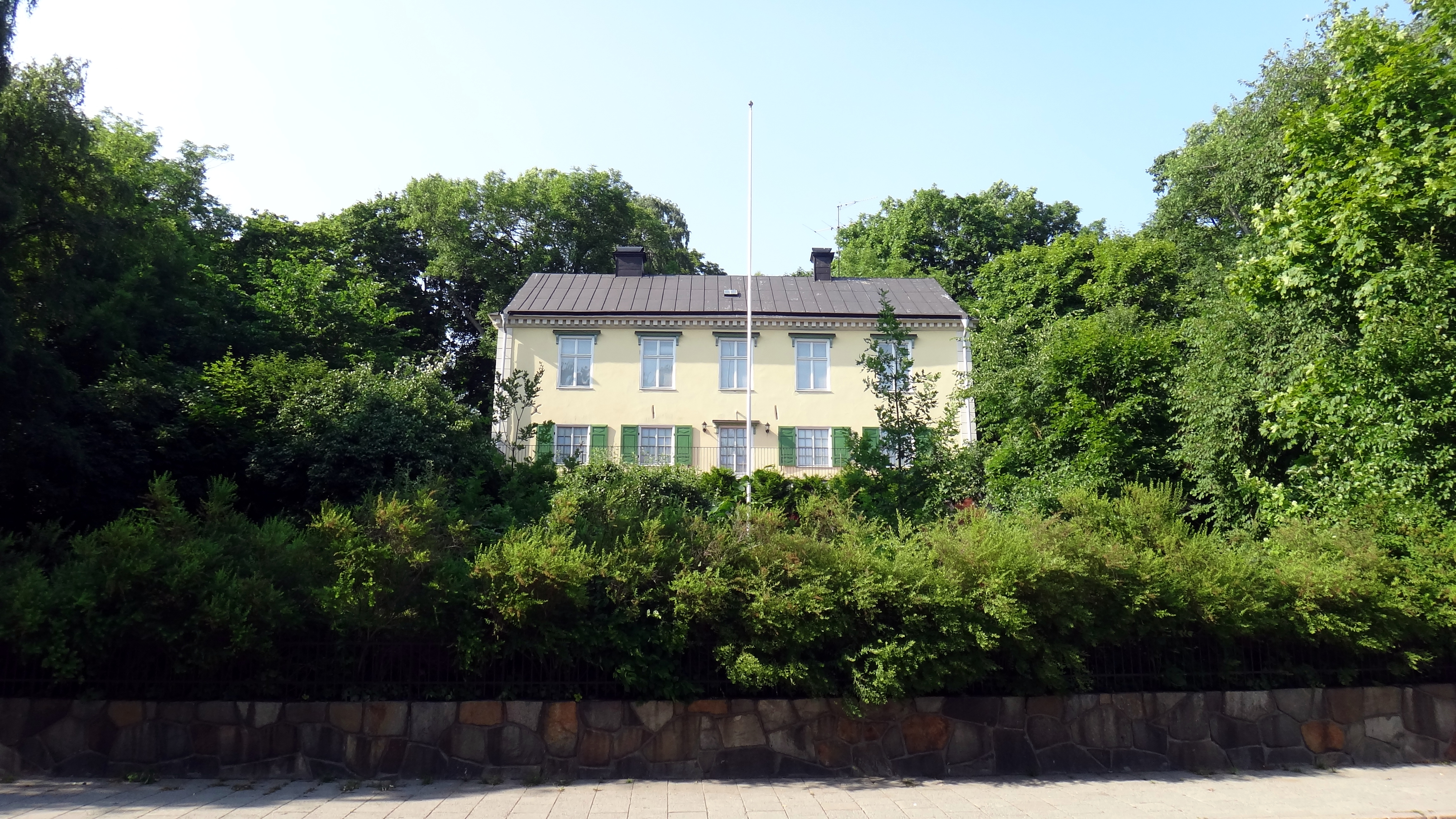 Ahlby (Alby) manor, Lilla Alby, Sundbyberg, Stockholm, Sweden.